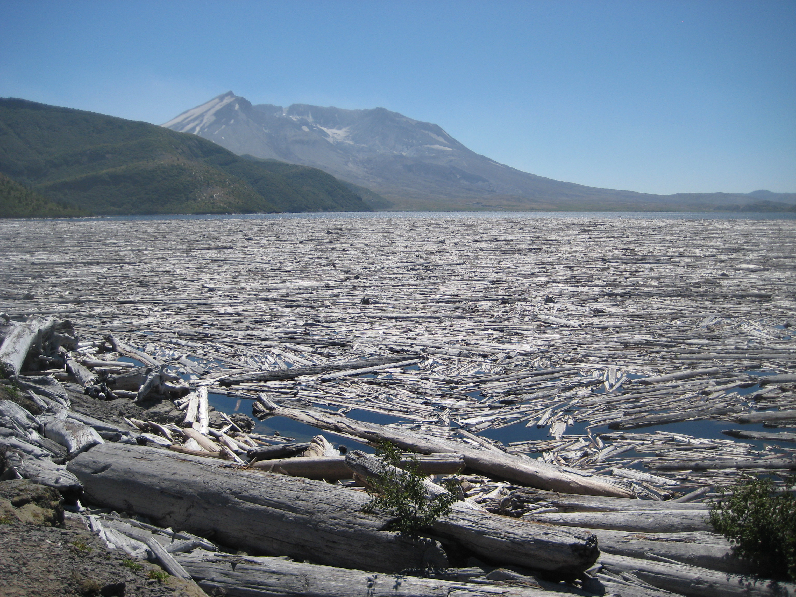 Tree mats drifting on Spirit Lake, with Mount St. Helens' open crater in the background. Taken in August 2012.